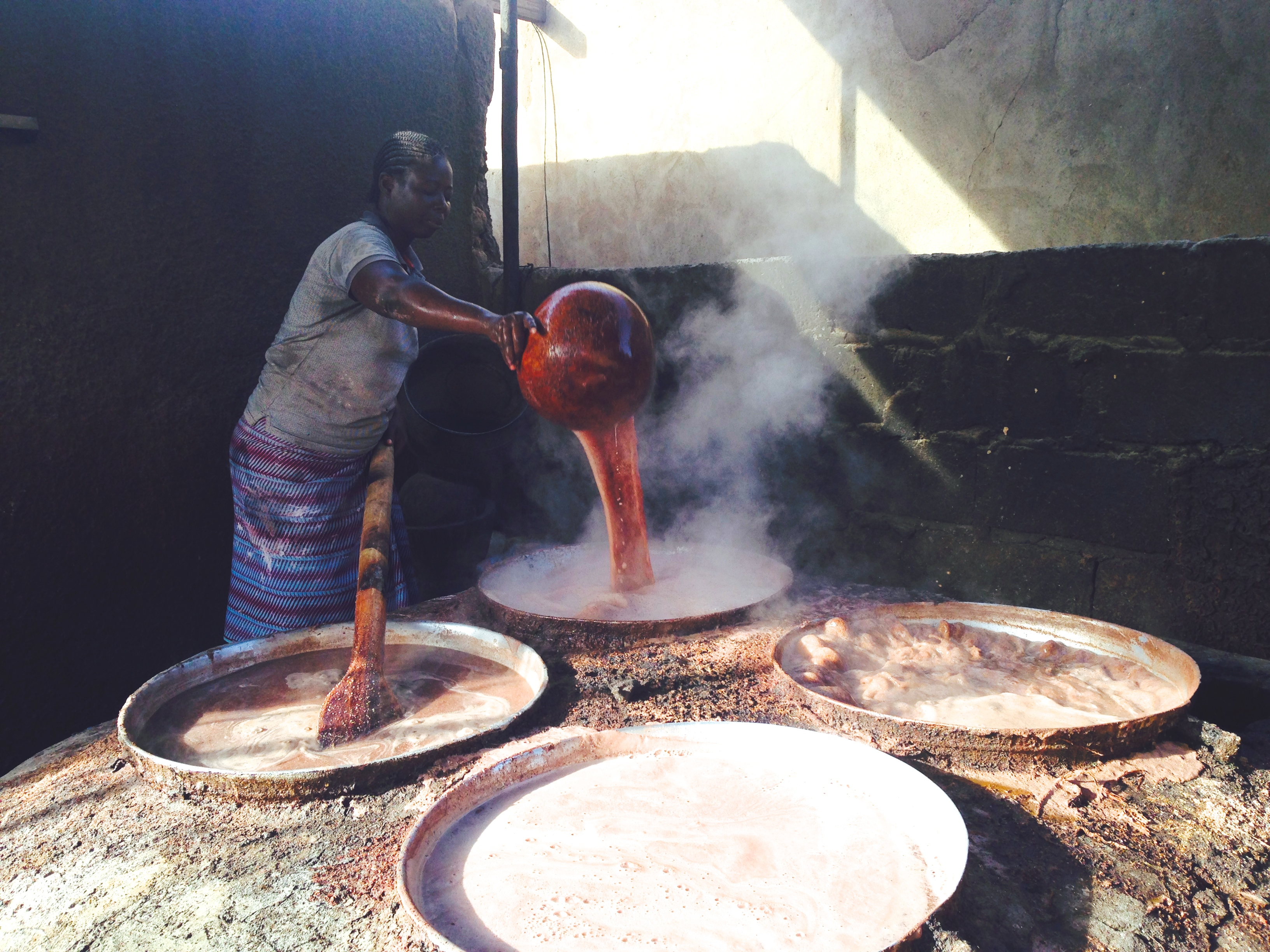 Production of handmade beer in Ouagadougou, Burkina Faso.